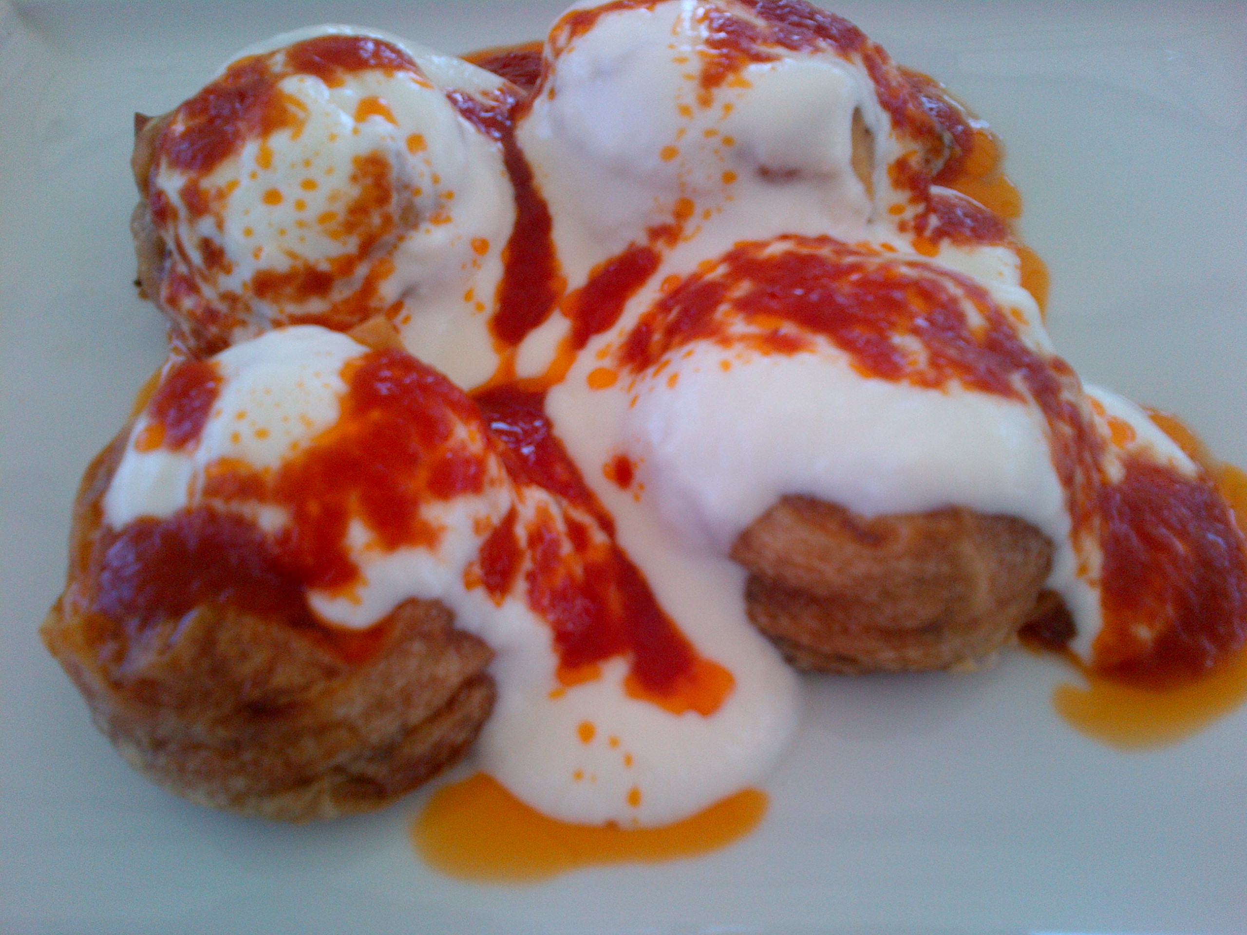 "Sosyete mantısı", like "sosyete simidi" and other "sosyete" food is a "special version of some Turkish dish or food. In this case it is a manti variant made with a ground beef-"börek" (a kind of "gül böreği", quite similar to a vol-au-vent) covered with garlic yogurt as a sauce and also tomato sauce.